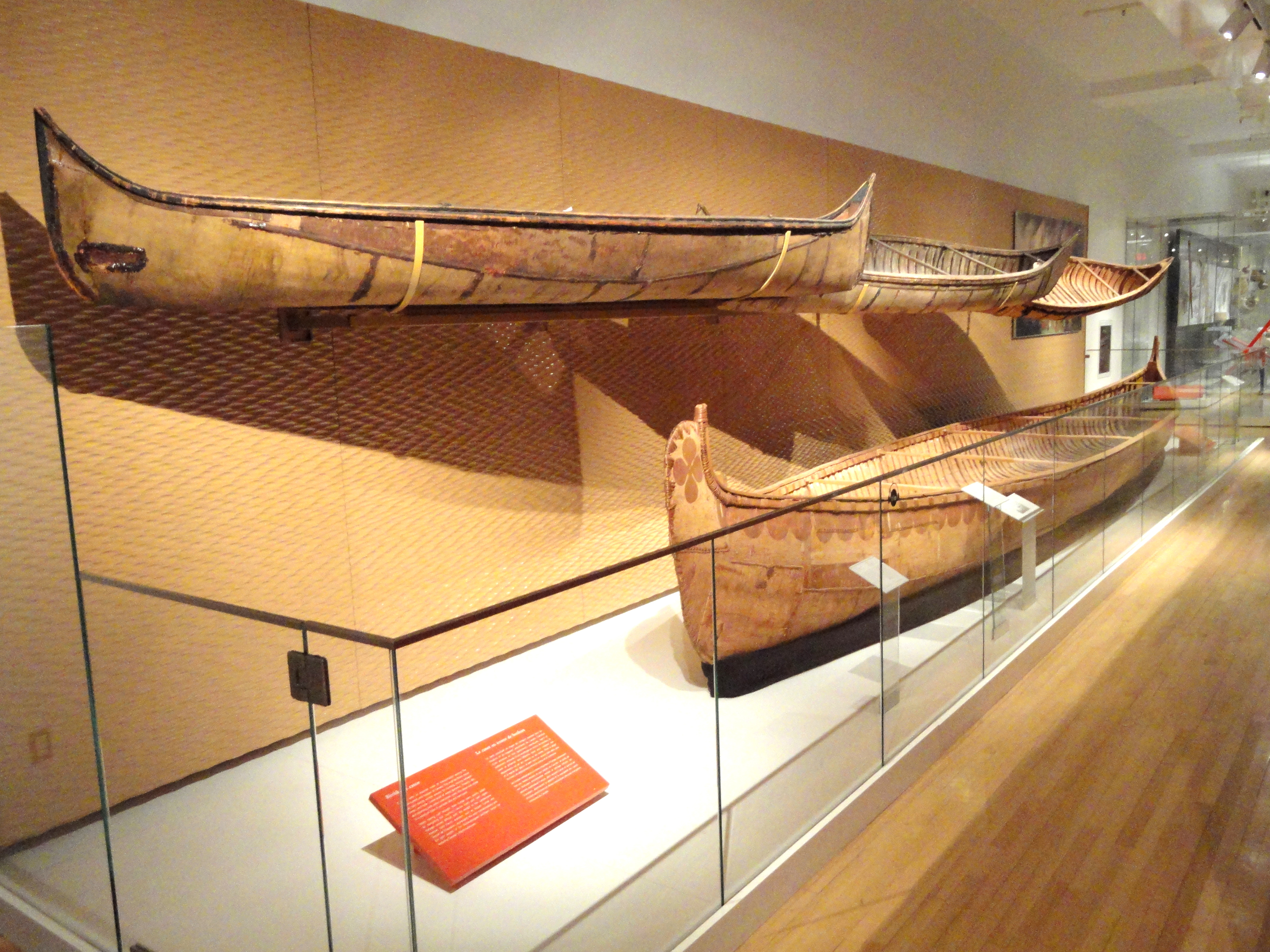 Exhibit in the Royal Ontario Museum, Toronto, Ontario, Canada. Photography was permitted in the museum. I took this photograph and release it into the public domain.